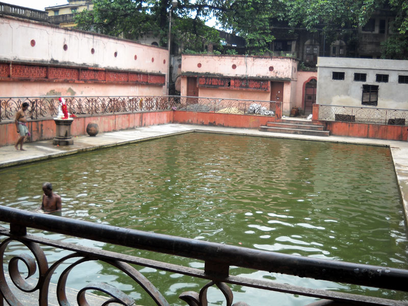 A view of Kundupukur, the sacred tank of the Kalighat Kali temple.